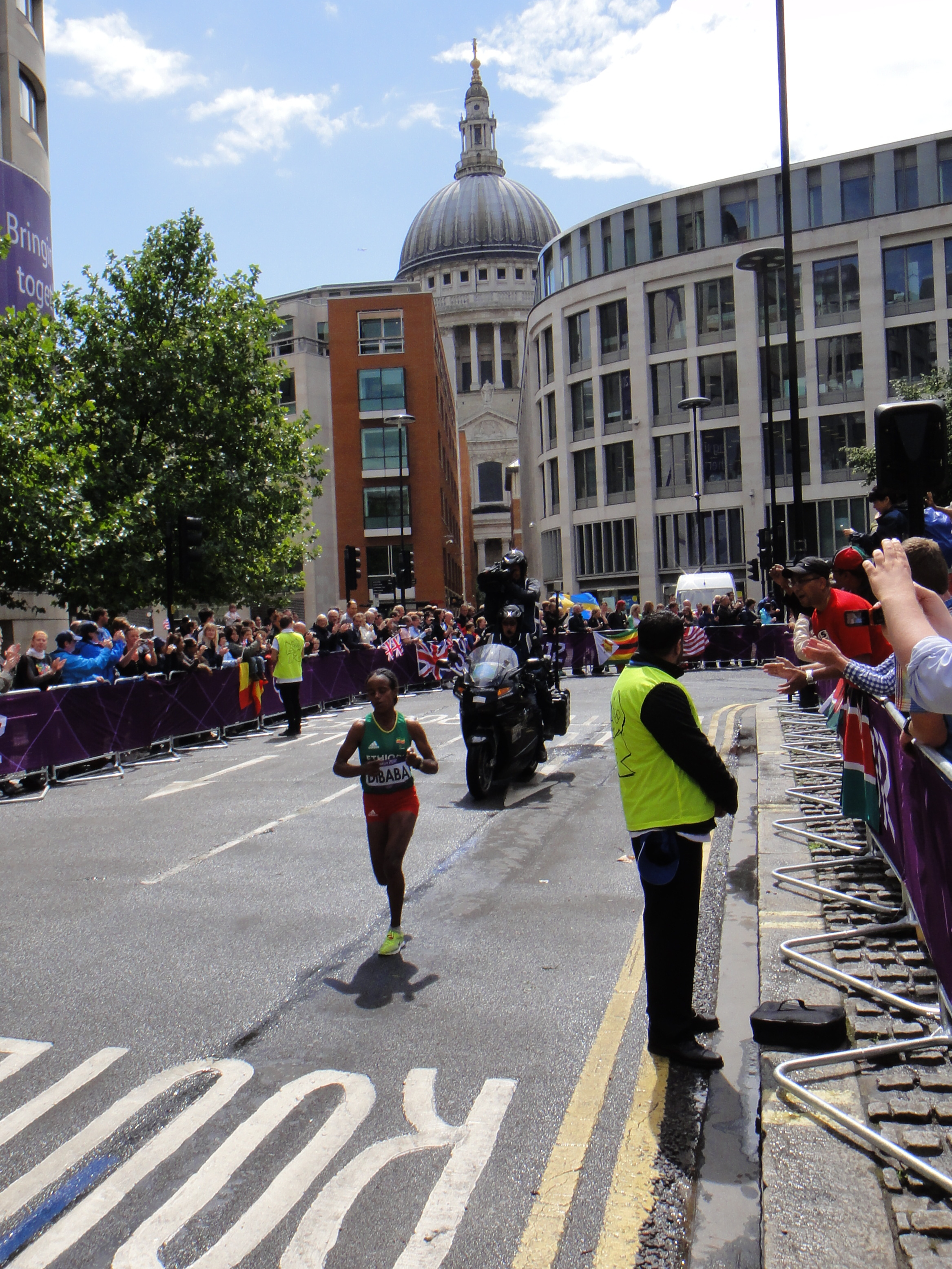 Mare Dibaba (Ethiopia) - London 2012 Women's Marathon